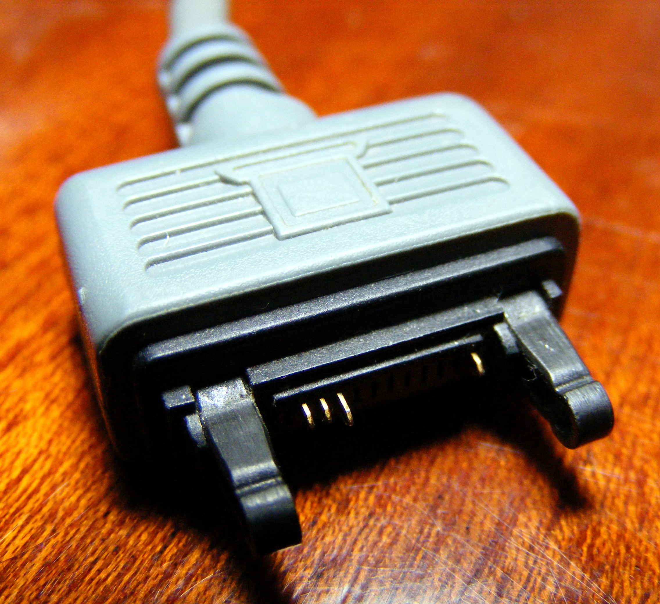 A picture of the FastPort male plug on a Sony Ericsson DCU-60 data cable.